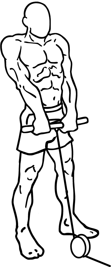 an exercise of traps